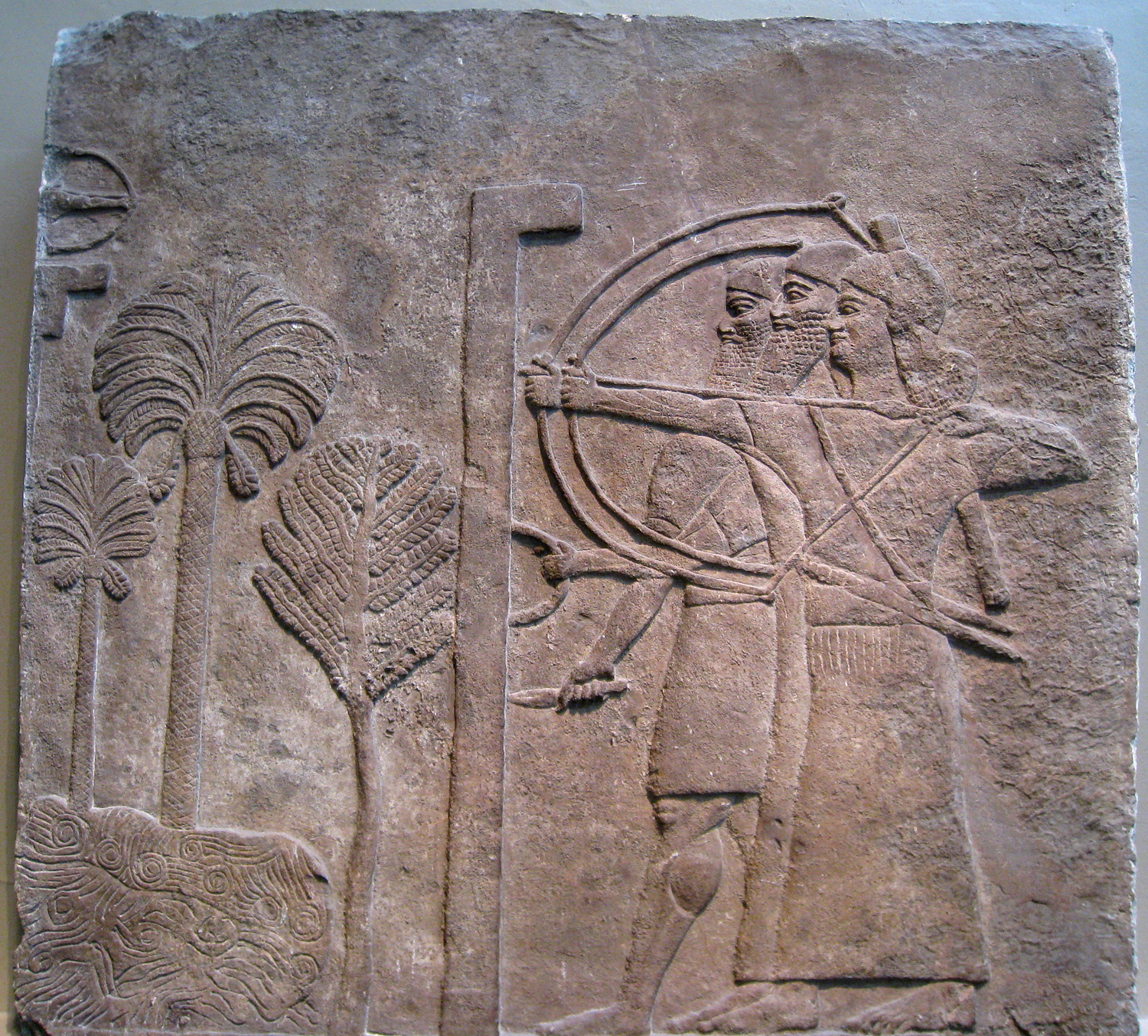 Relief depicting Assyrian archers attacking a besieged city, most likely in Mesopotamia. An Assyrian soldier holds a large shield to protect two archers as they take aim. From the Central Palace in Nimrud and now in the British Museum, London. Circa 728 BC.